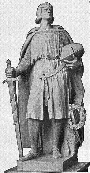 Former Siegesallee in Berlin the statue commemorating to the margrave of Brandenburg Otto IV (surname with the arrow) (ca 1238–1308), son of margrave Johann I. Sculptor: Karl Begas. Unveiled on 22 March 1899.